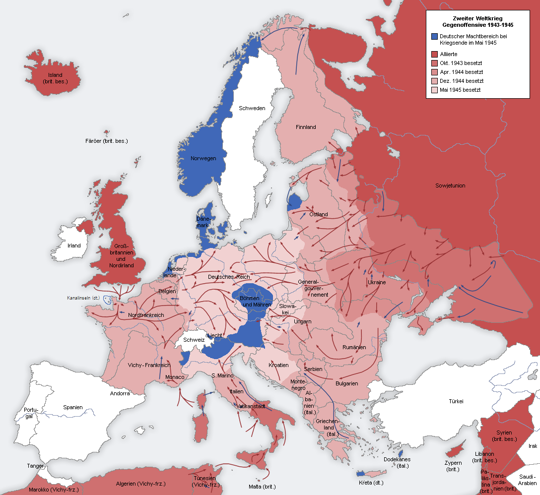 Second world war europe 1943-1945 in German